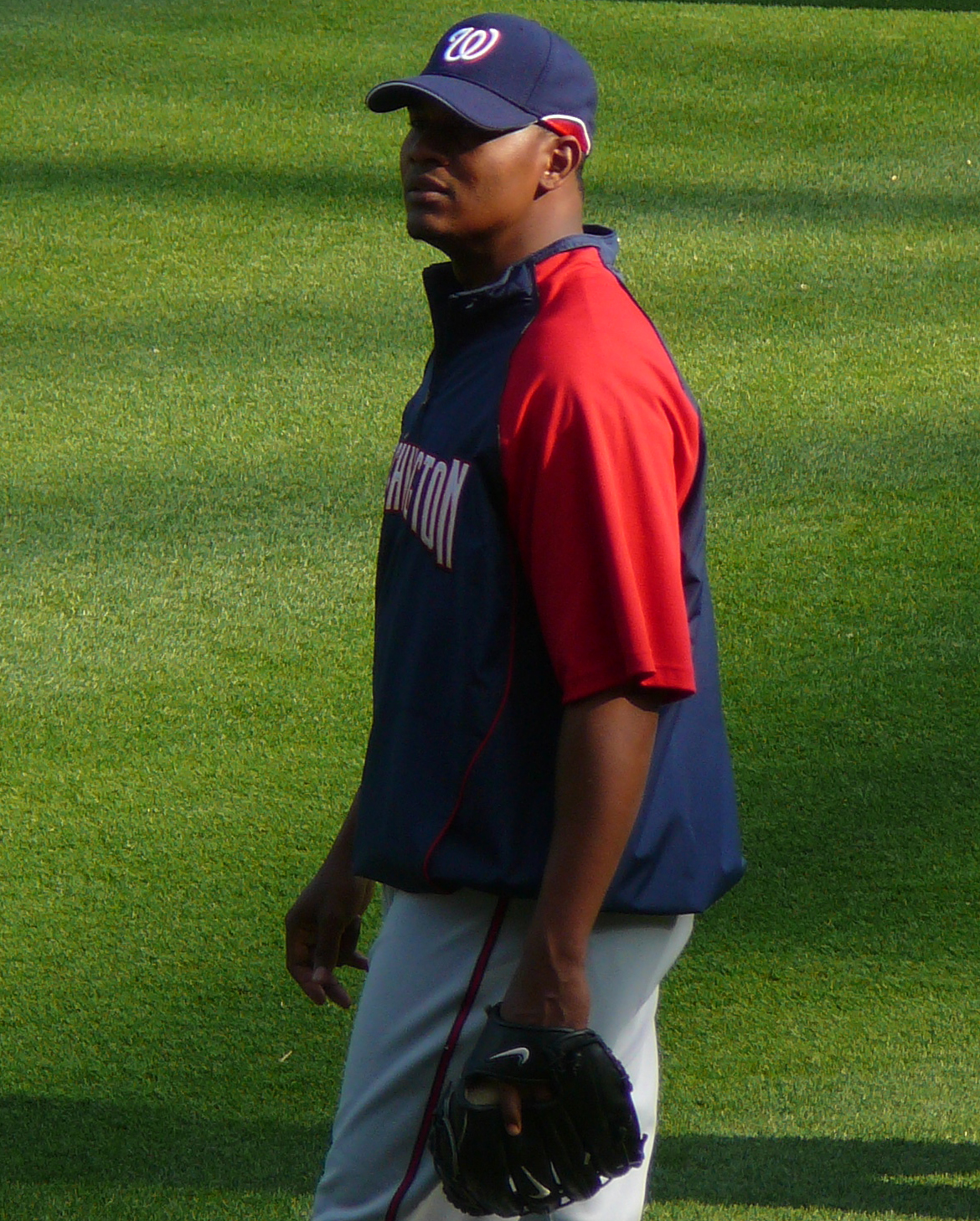 User:Chrisjnelson agreed to license this image of Jesus_Colome.jpg under a free attribution license. Any use of this image must be attributed; this means that Photo by :en:User:Chrisjnelson|Chris Nelson should be in the picture caption. 01:42, 24 April 2008 . . Chrisjnelson . . 1,170×1,458 (1.63 MB)